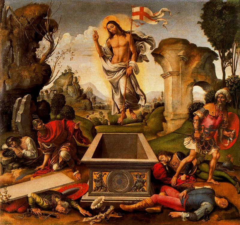 Resurrection of Christlabel QS:Len,"Resurrection of Christ"label QS:Les,"Resurrección de Cristo"